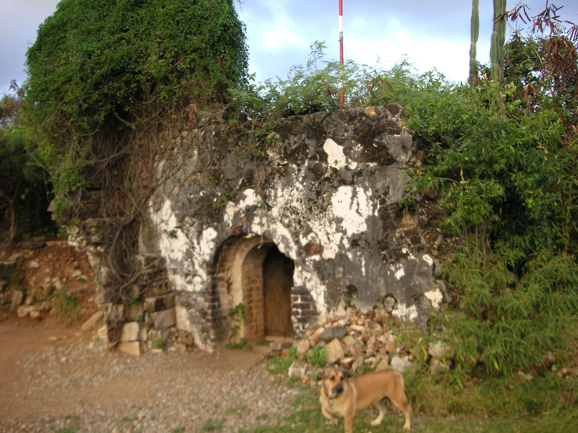 Photograph of the remains of Fort George, Tortola, British Virgin Islands